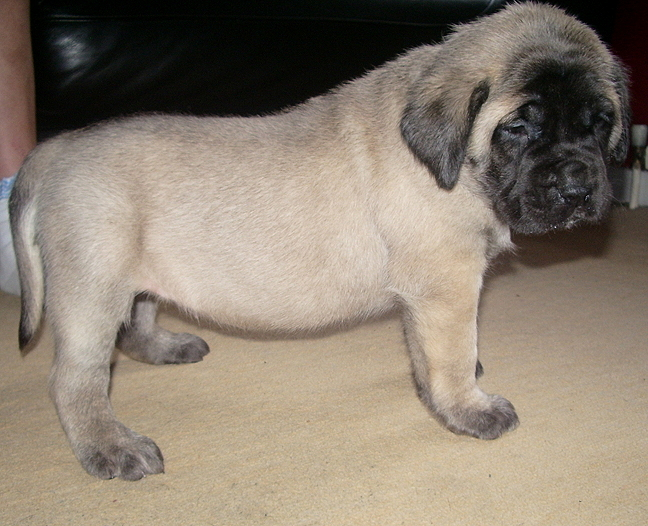 4 week old Mastiff bitch puppy